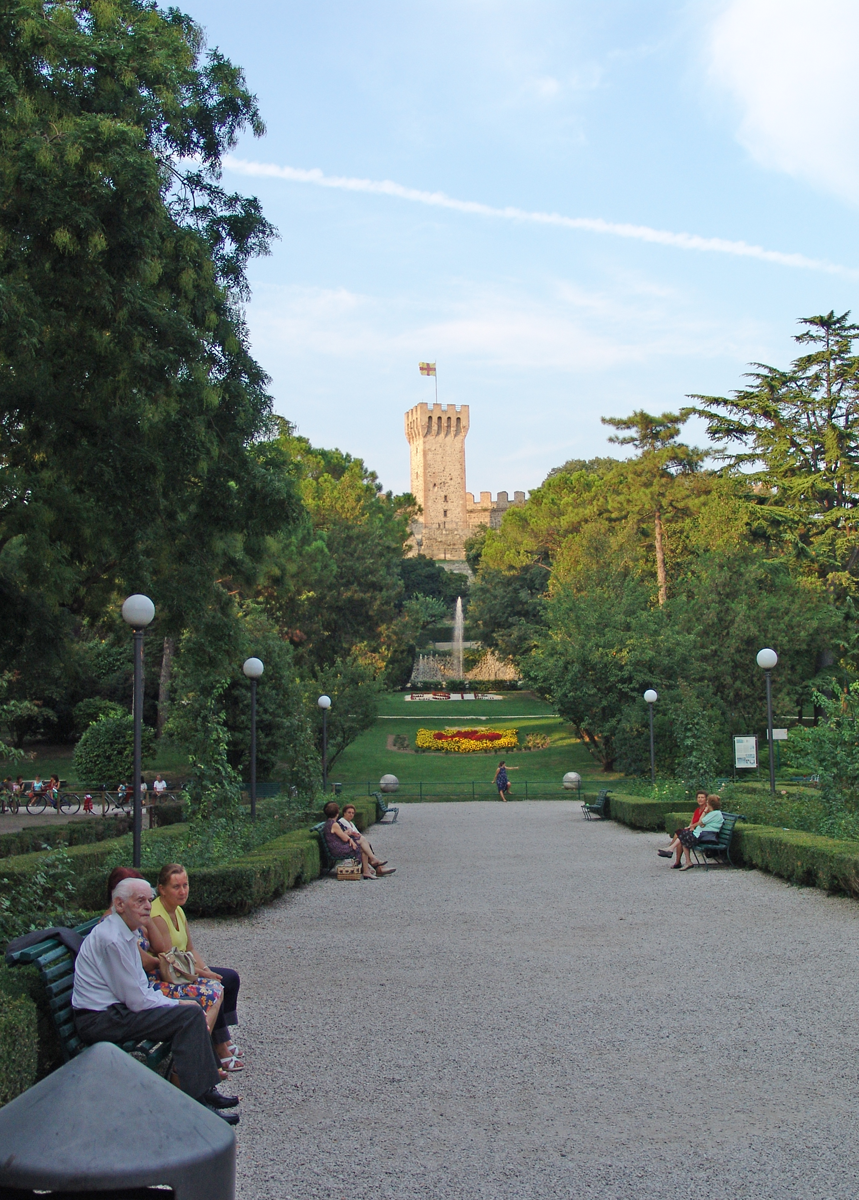 Este, view of the Castello